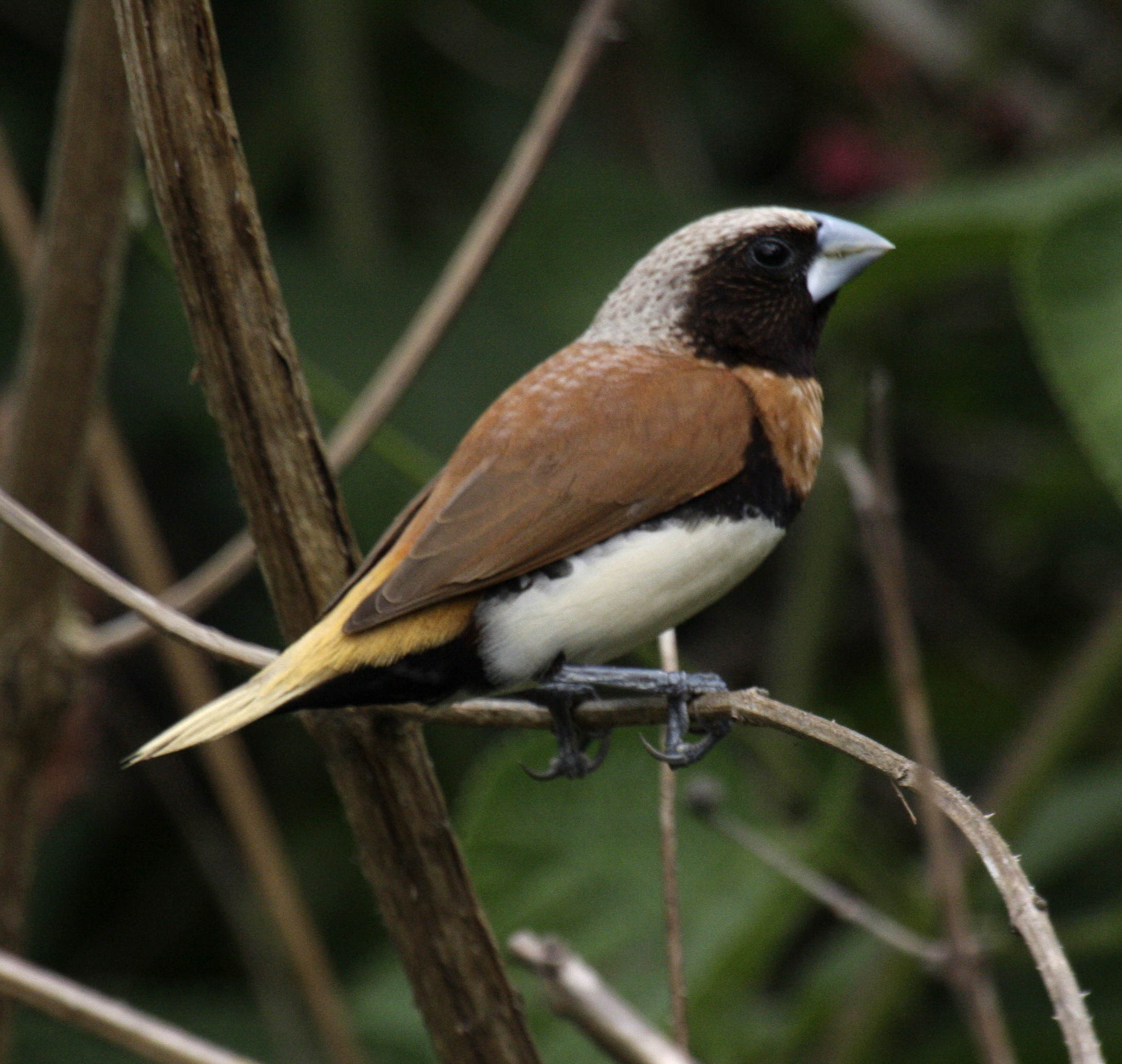 Chestnut-breasted Munia (Lonchura castaneothorax) Samsonvale Cemetery, SE Queensland, Australia